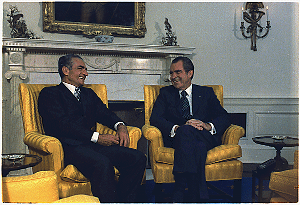 The Shah of Iran, Mohammad Reza Pahlavi, speaks with then-President Richard Nixon in the Oval Office, White House.